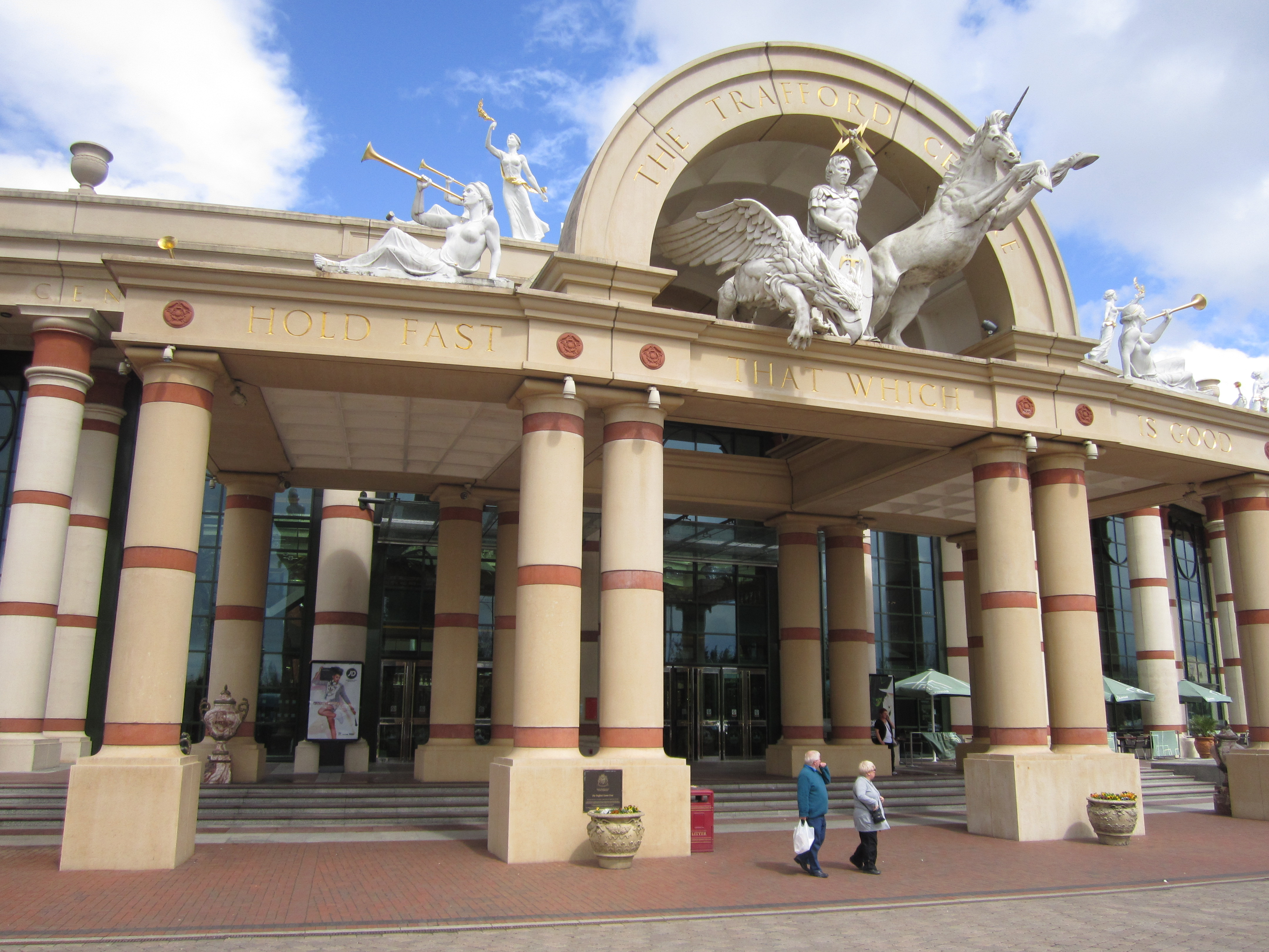 Photo taken at the Trafford Centre, Greater Manchester, England.